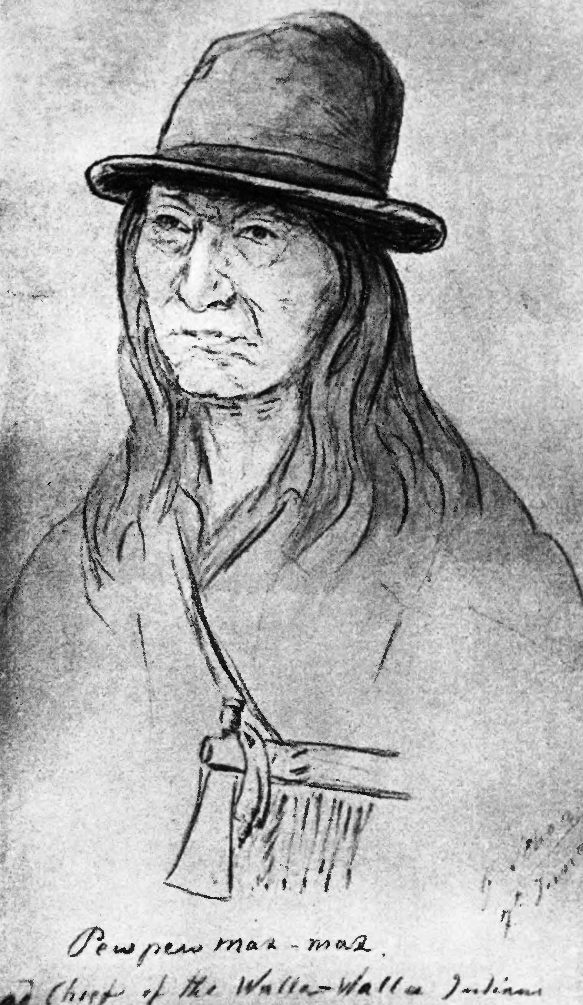 Sketch of Chief Peo-Peo-Mox-Mox (Yellow Bird)of the Walla-Walla; Drawing by Gustav Sohon, 1855